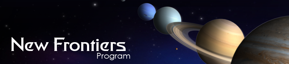 Header of the New Frontiers program's official website, from June 2016